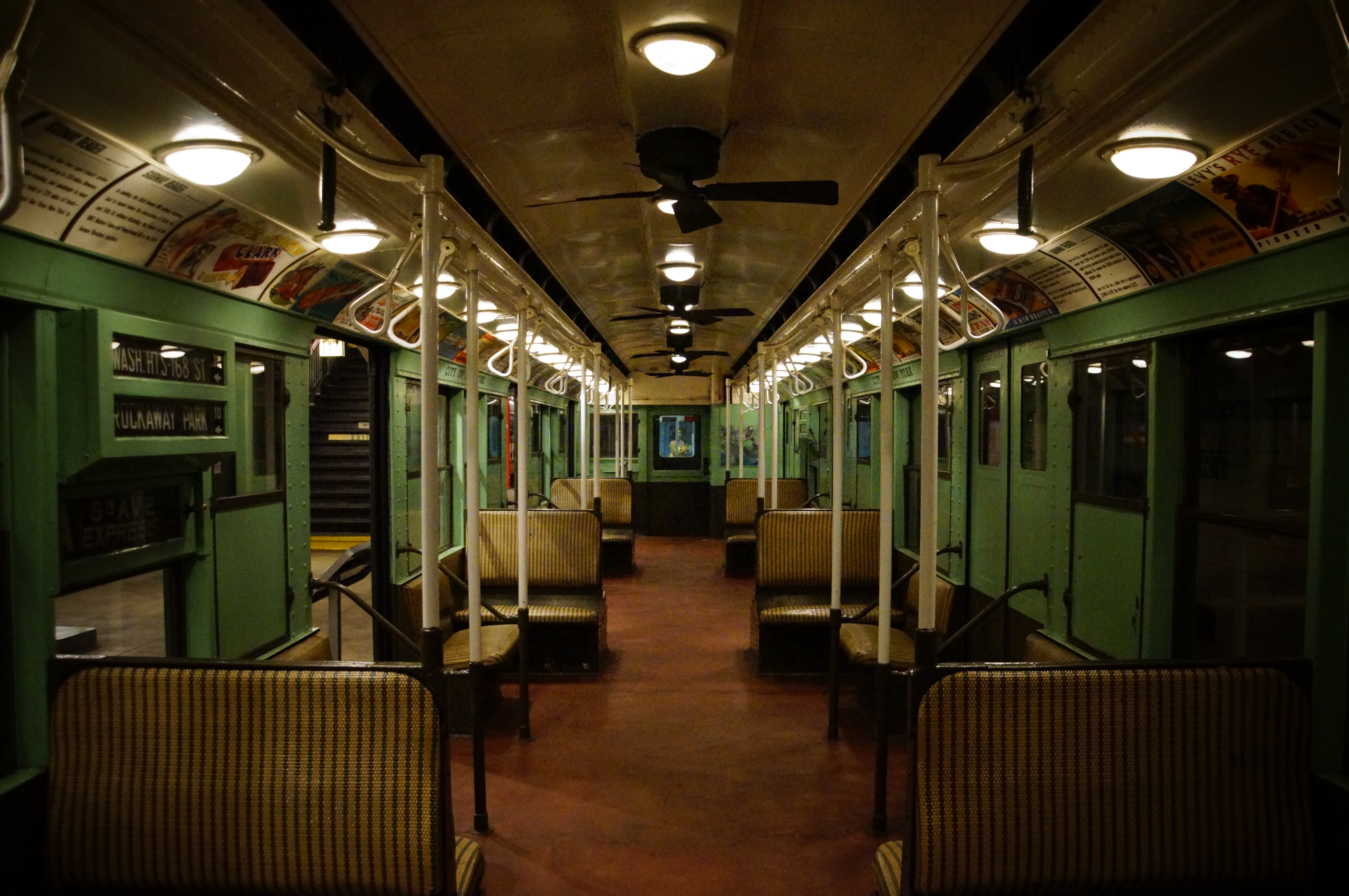 A view of the interior of MTA NYC R4 484 at the NY Transit Museum.